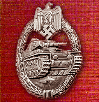 Panzer Badge